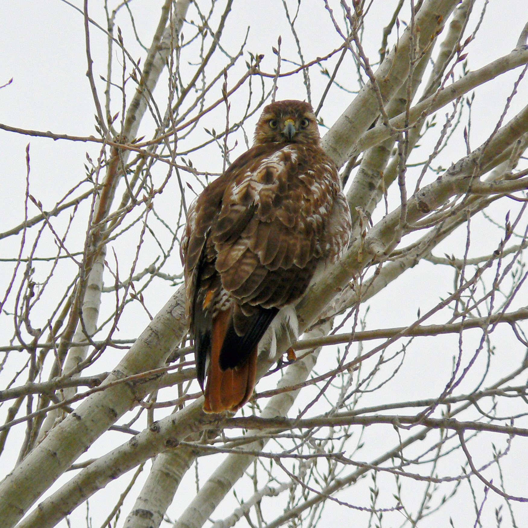 Red-tailed Hawk (Buteo jamaicensis) taken at Chalco Hills Recreation Area, Nebraska